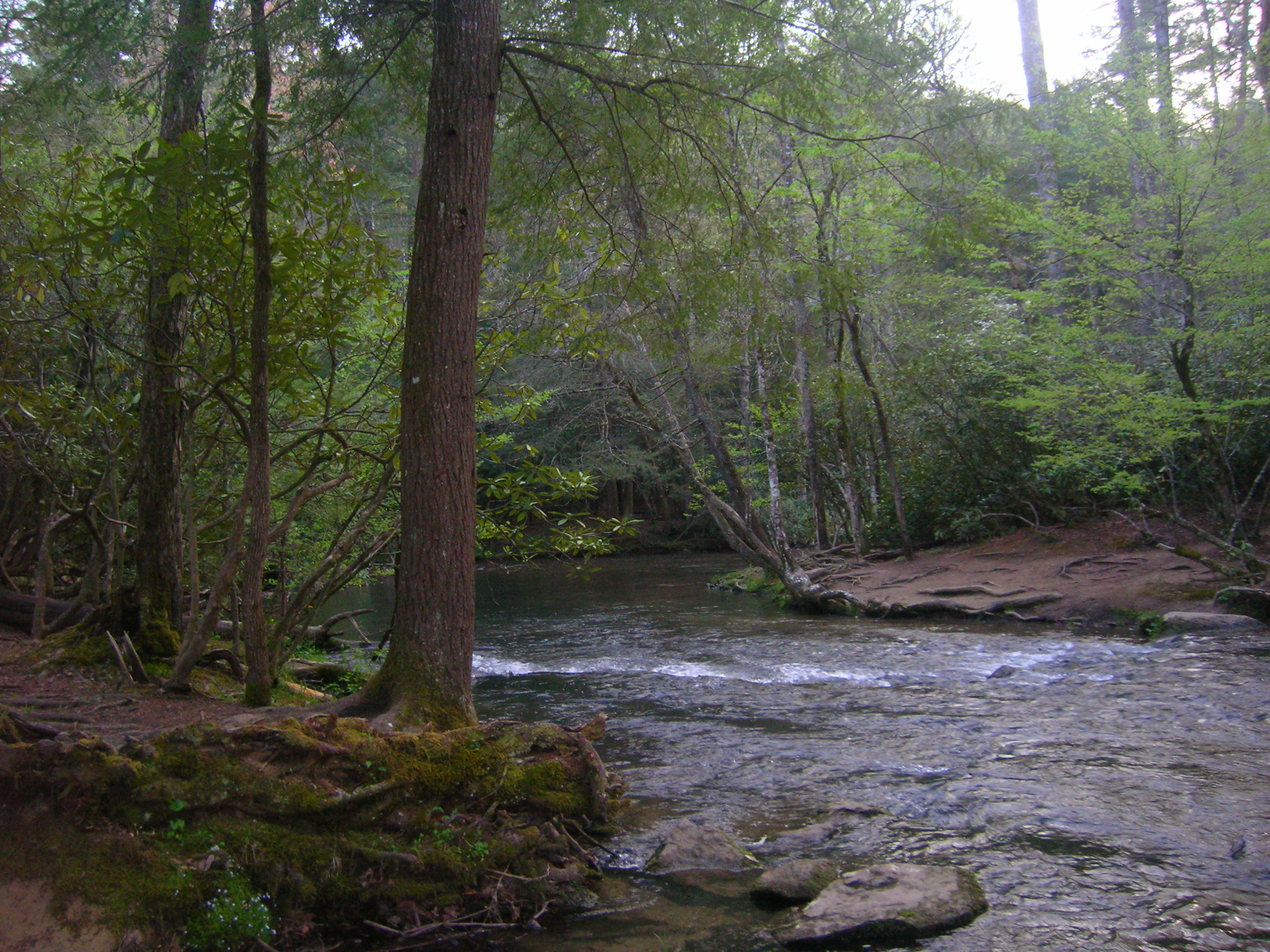 Abrams Creek is the largest creek wholly within the Great Smoky Mountains National Park of Tennessee and North Carolina. Photo taken by myself, Scott Basford, in April of 2006.